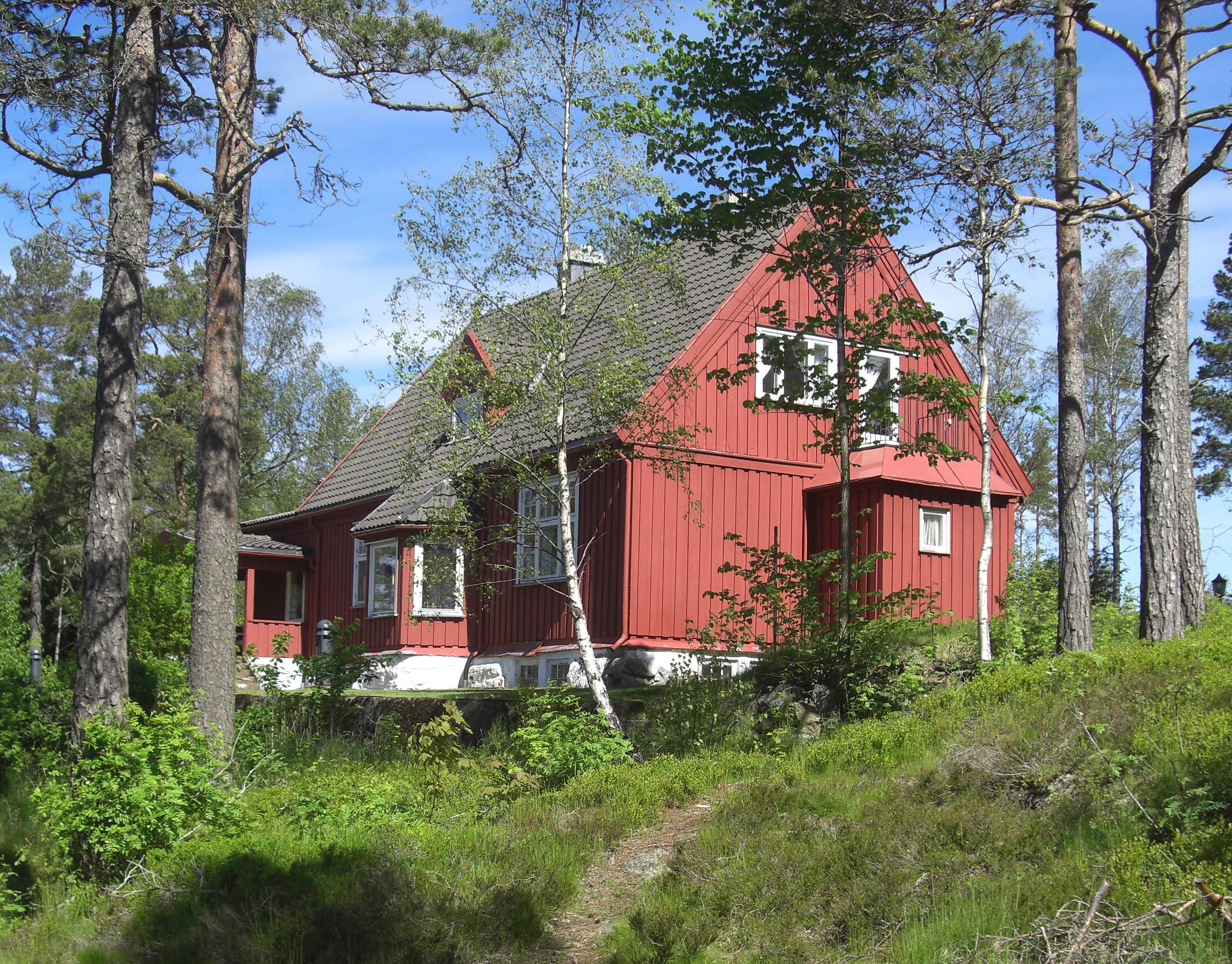 Commander's residence, Høytorp fort